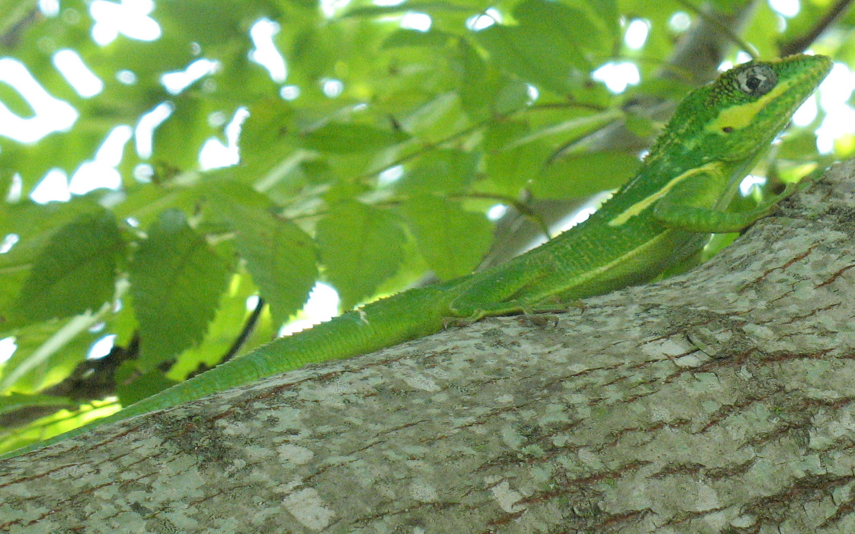 Knight anole sitting in a tree in Miami-Dade, FL.